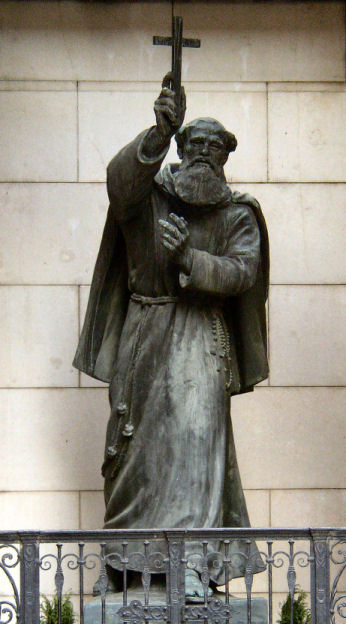 Marco d'Aviano - Monument in front of the Church of the Capuchins in Vienna